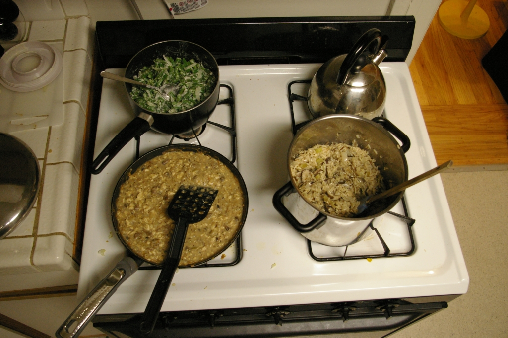 Green beans with horseradish sauce - Veggie gravy (for tofu pockets) - Brown rice and mushroom dressing (for tofu pockets) Veggie Gravy recipe: 1 small onion, minced extra tofu from making Stuffed Tofu 1 clove garlic, minced 5 mushrooms, sliced 1/4 cup unbleached white flour (or gluten-free flour of choice) tofu marinade about 1 1/4 cups vegetable broth 1/2 cup plain soymilk 1 tsp. poultry seasoning 1 tsp. thyme 1 tbsp. nutritional yeast 1/8 tsp. Liquid Smoke seasoning salt and pepper, to taste Brown rice and mushroom dressing: Add enough vegetable broth to the reserved marinade to make 2 cups of liquid. Spray a non-stick sauce pan with canola oil. Add the onion and sauté for about 3 minutes. Add the tofu and garlic, and cook, stirring, for 1 minute. Add the mushrooms and cook until they exude their juices. Stir in the flour and cook for about 3 minutes, stirring constantly. Slowly stir in the vegetable broth mixture. Add the remaining ingredients and cook, stirring, until mixture thickens, about 5 to 10 minutes. Brown Rice and Mushroom Dressing 1 large onion, chopped 1 rib celery, chopped 2 tsp. garlic, minced 6 ounces mushrooms, chopped 1 1/2 tsp. thyme 1/2 tsp. rubbed sage 1/2 tsp. rosemary 1/8 tsp. black pepper 1 cup long-grain brown rice 2 1/2 cups water 1 tsp. salt (optional) 1/3 cup chopped fresh parsley Spray a large, non-stick pot with canola oil and set it on medium-high heat. Add the onions and celery, and cook until the onions start to become translucent, about 3 minutes. Add the garlic, mushrooms, herbs, and rice and sauté for another minute. Add the water and salt and cover tightly. Turn the heat very low and cook for about 45 minutes, or until rice is tender and water is mostly absorbed. Resist opening the lid until 45 minutes have passed!